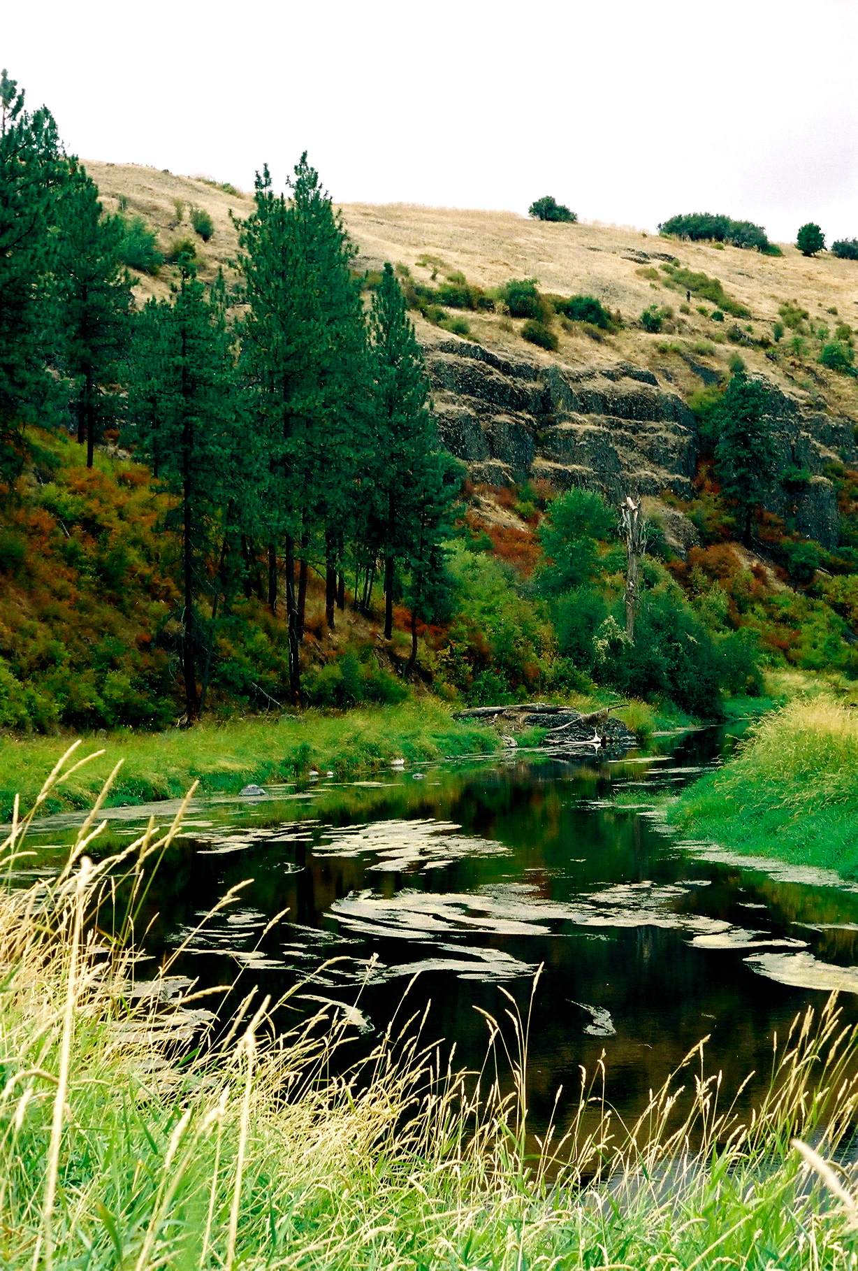 Palouse river, flowing west a few miles west of Colfax. I took the photo in August 2007.